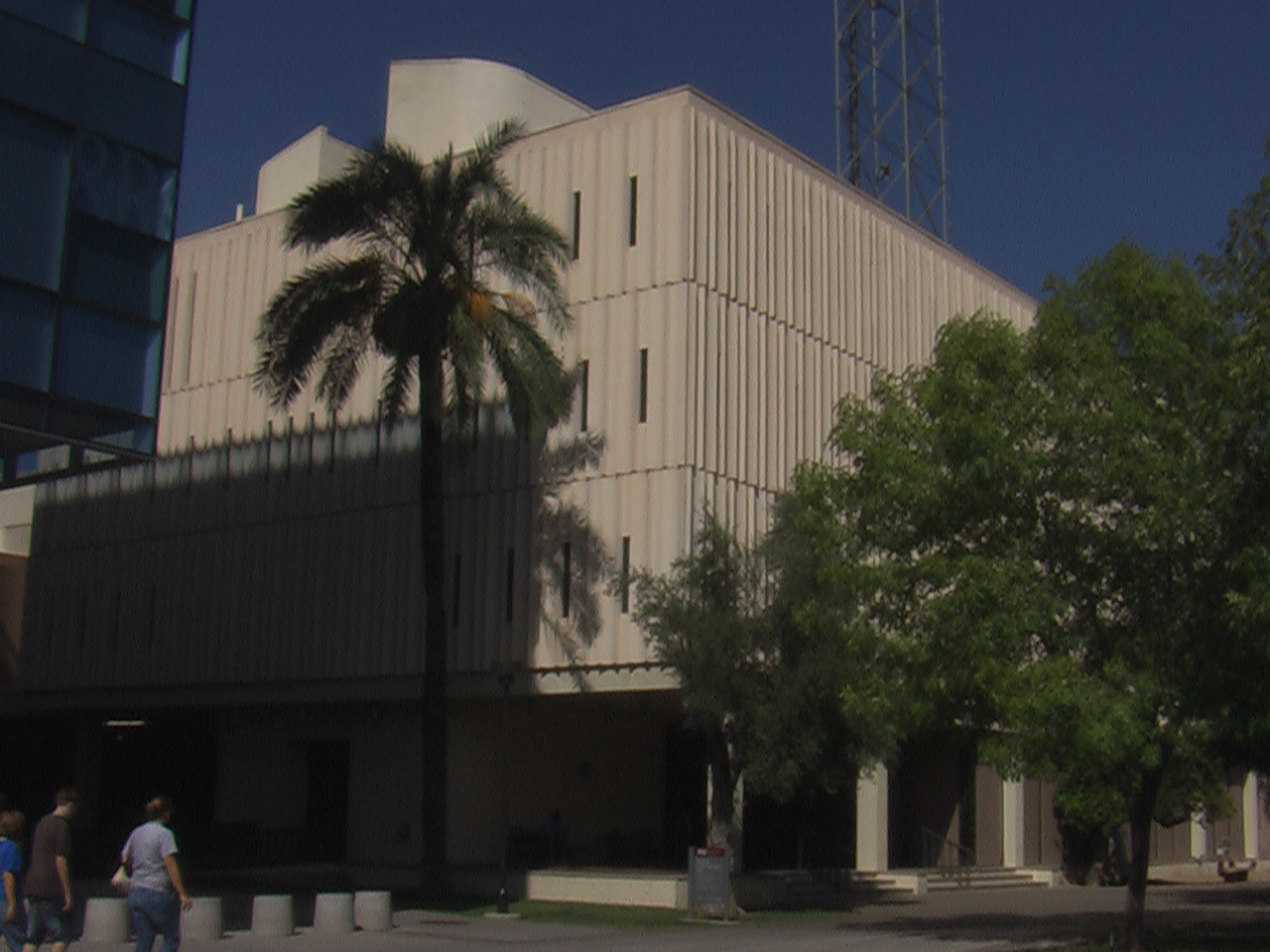 A photo of Stauffer Hall, the former home of the Walter Cronkite School of Journalism and Mass Communication at Arizona State University. I took this photo myself.